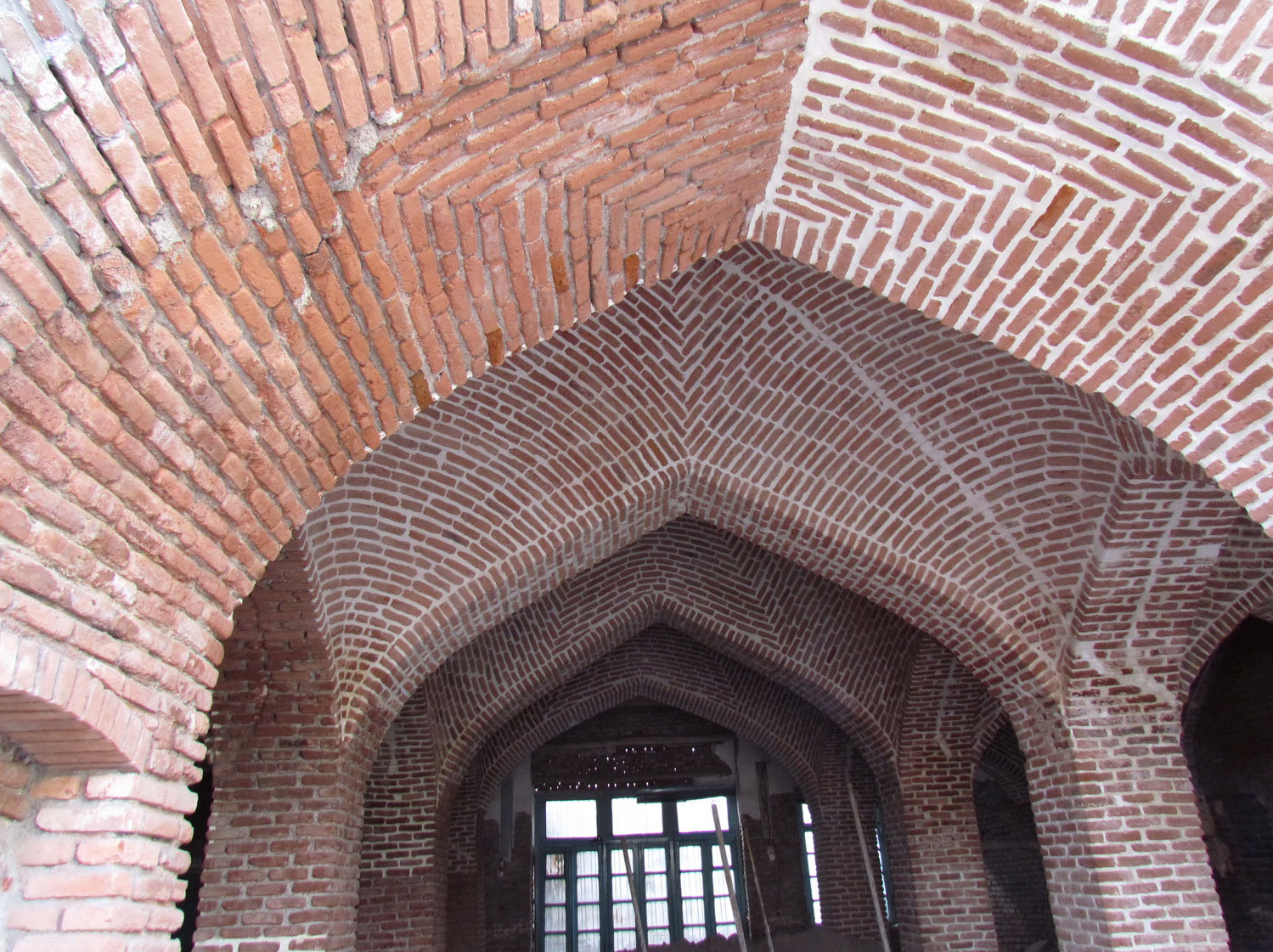 Shojaaddole Mosque, Maragheh, Iran.